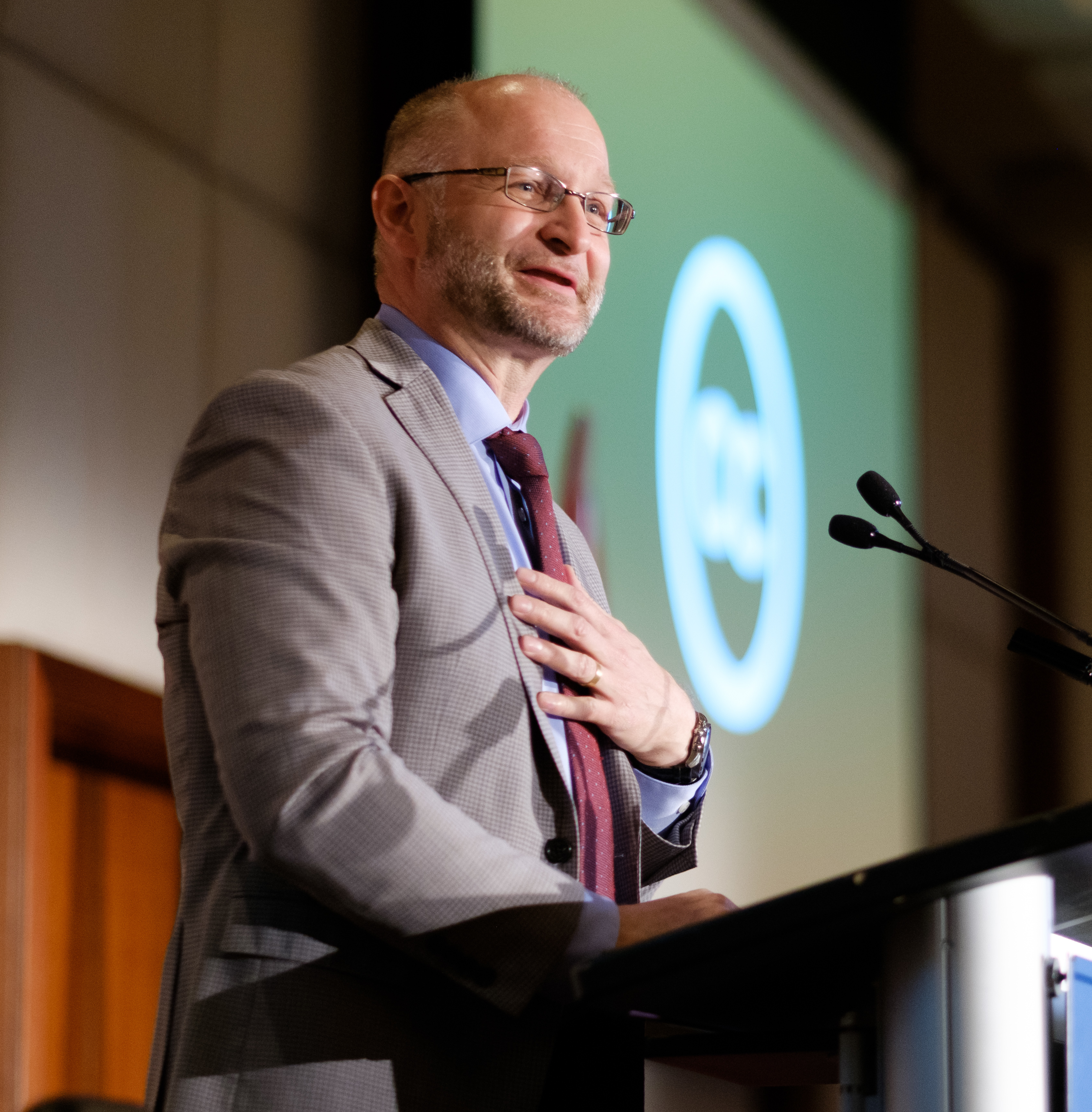 David Lametti, Parliamentary Secretary to the Minister of Innovation, Science and Economic at the Creative Commons Global Summit 2017